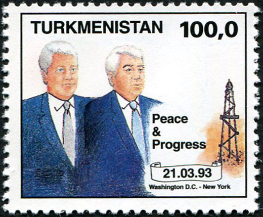 Visit of President Niyazov to USA. Presidents Bill Clinton and Niyazov (21.03.93)